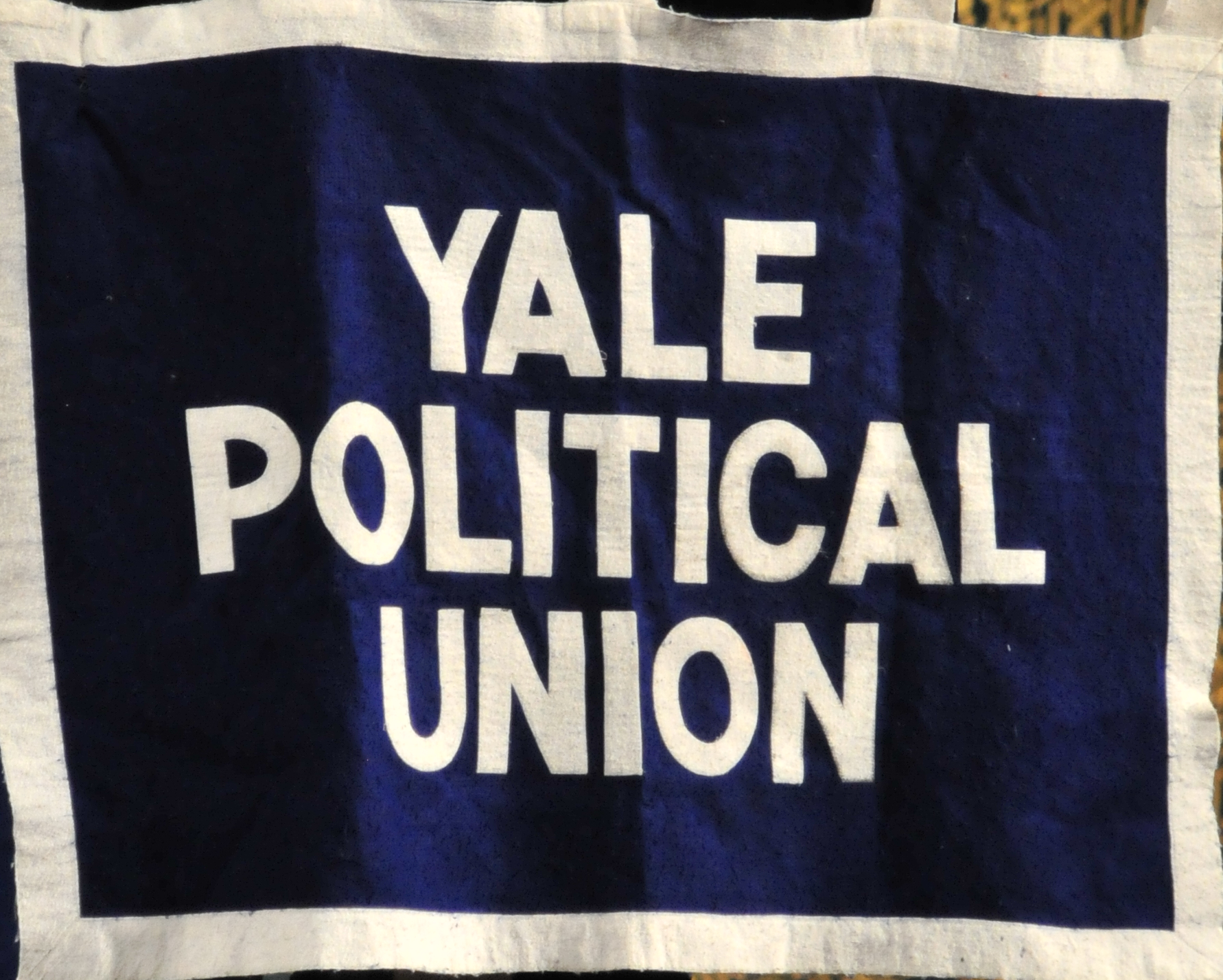 Banner of the Yale Political Union, picture taken September 2012.